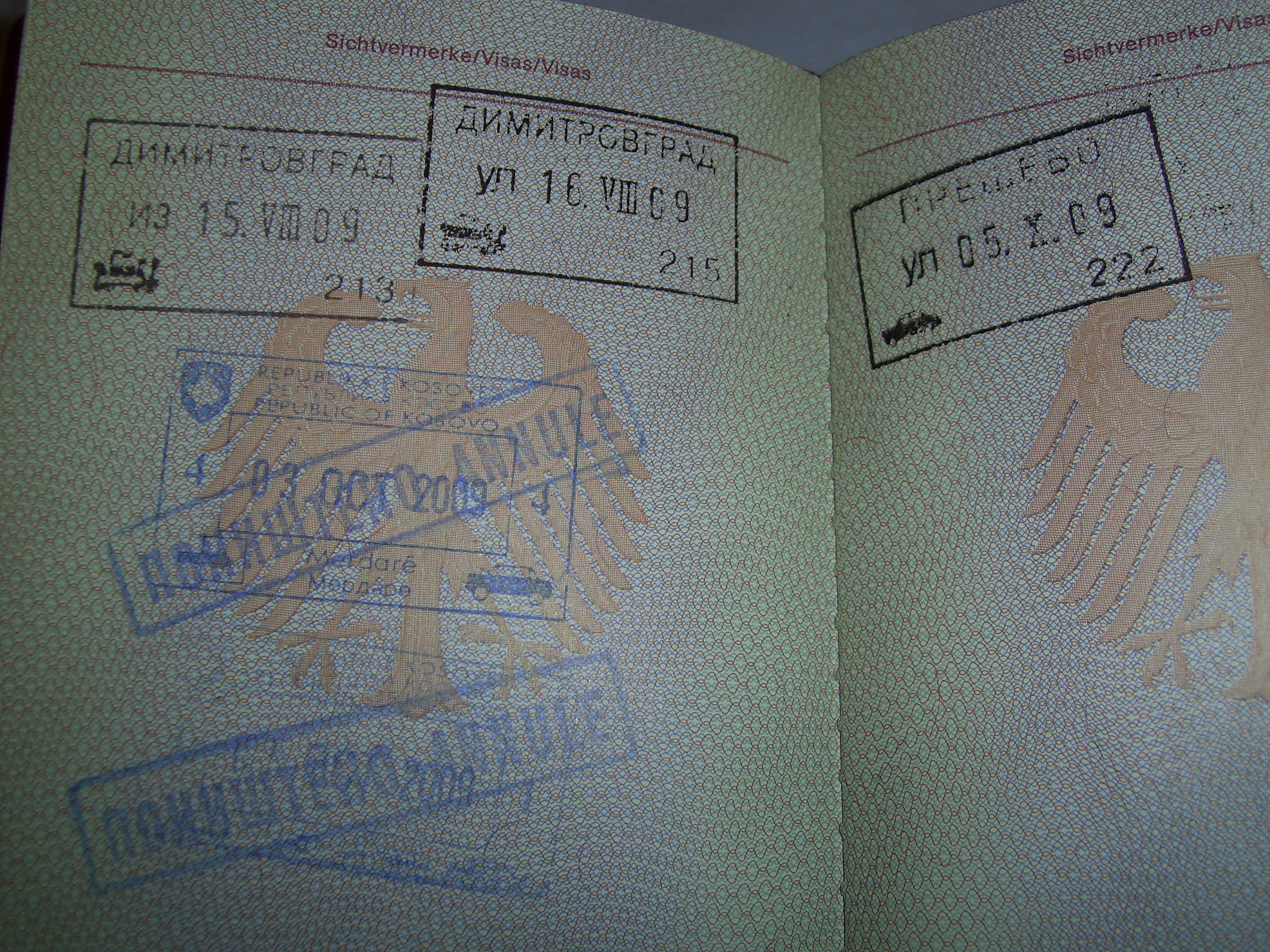 Kosovo stamps in a German passport annulled by Serbian border police. Serbian stamps on the left are unrelated, Serbian stamp on the right originates from re-entry into Serbia. Macedonia did not stamp the passport. Travel route: Niš-Prishtina-Skopje-Niš.